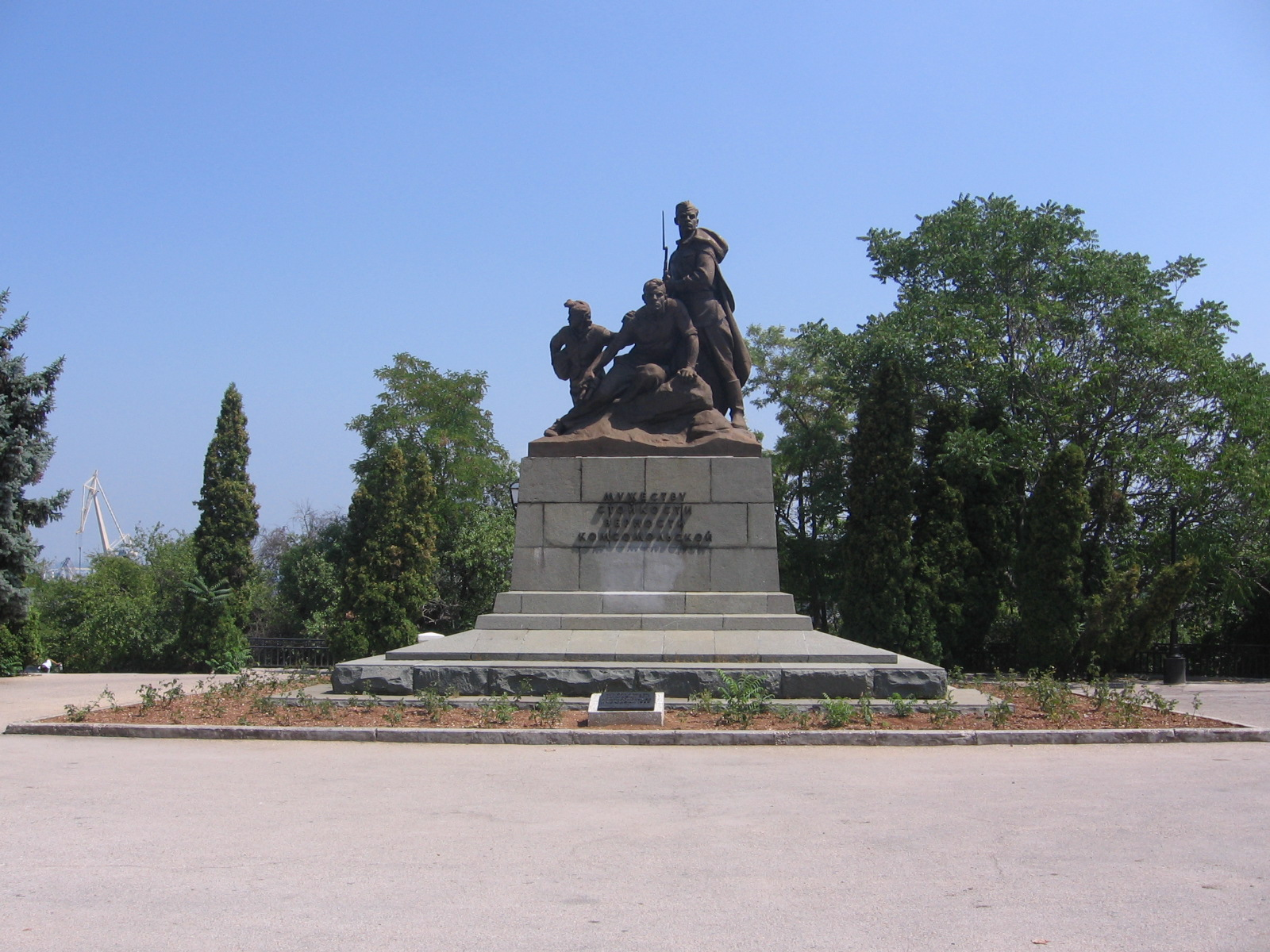 Monument to Courage, Firmness and Faithfulness of members of the Komsomol in Sevastopol. It is one of the monuments of the Great Patriotic War. Built in October 1963 using means collected by members of the Komsomol of Sevastopol. Sculptor Stanislav Chizh, architect V.I.Fomin.